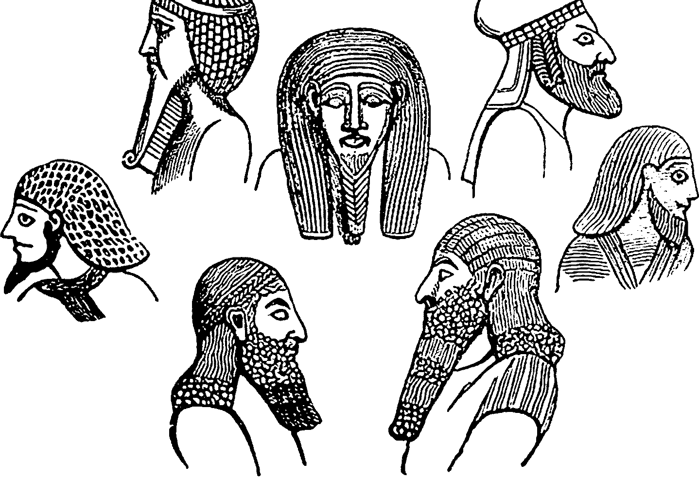 Beards and hairdressing of Ancient Egypt. Picture from popular bible encyclopedia of Archimandrite Nicephorus (1891).